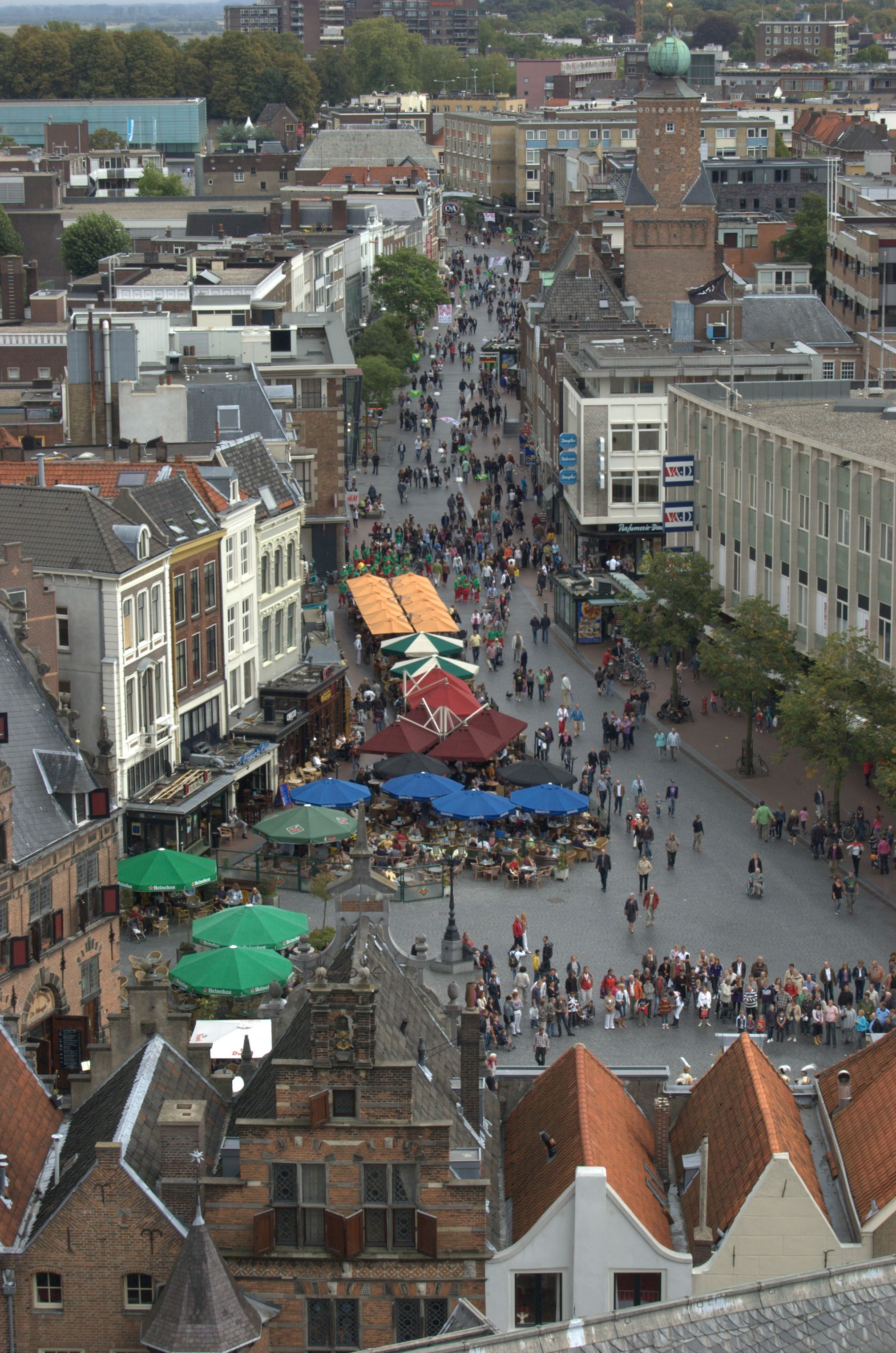 View of Burchtstraat in Nijmegen as seen from Stevenskerk.